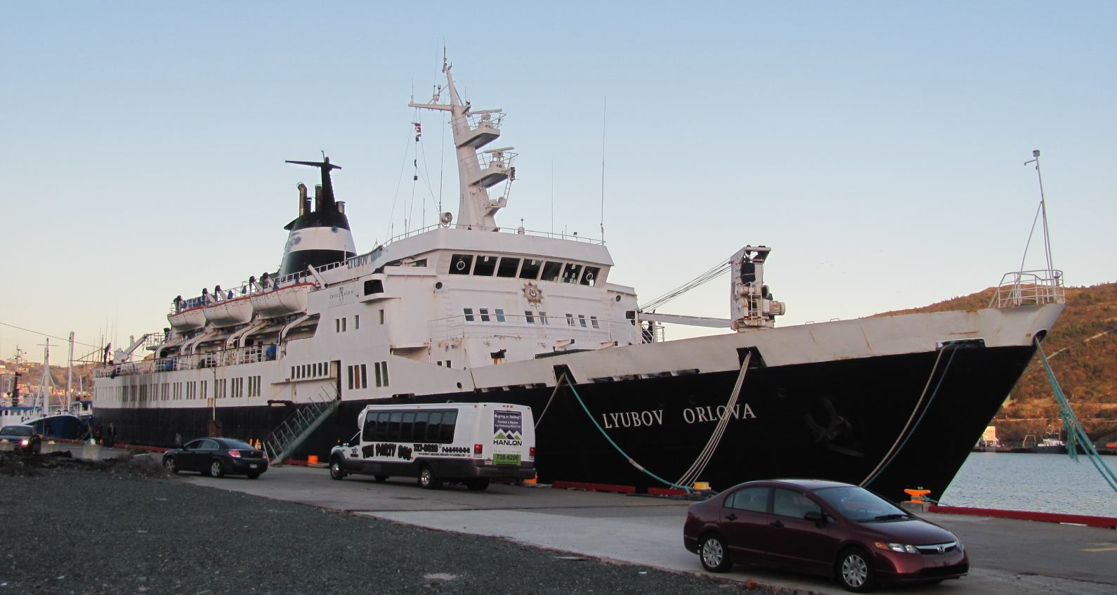 The cruise ship ' 'Lyubov Orlova' ' sitting derelict at dockside in St. John's, Newfoundland and Labrador, October 2012.